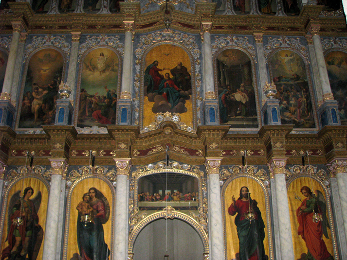 Iconostasis in Kovilj monastery, near Novi Sad, Vojvodina (Serbia)